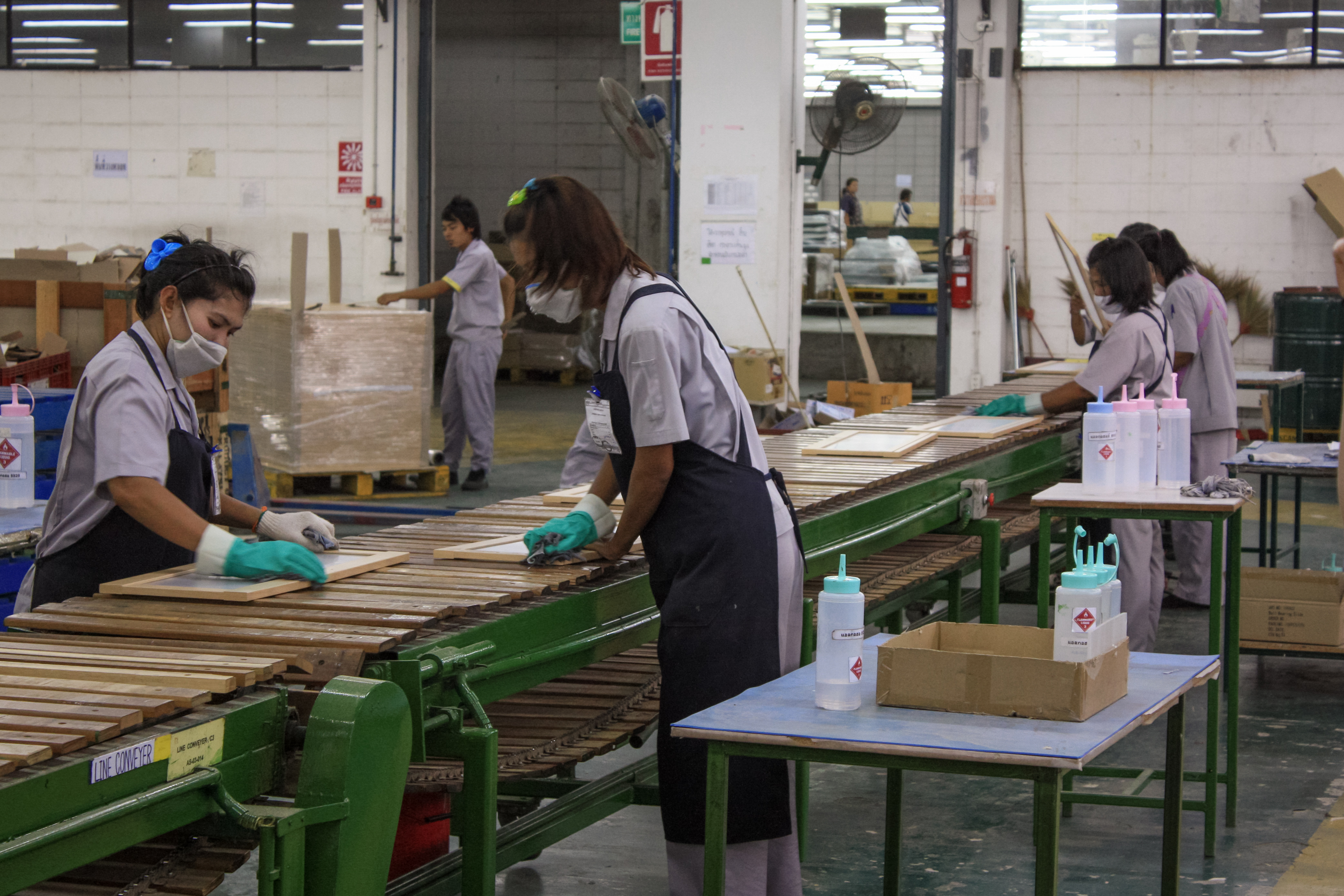 A typical factory in Chachoengsao.